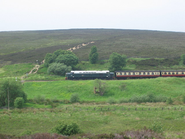 Fen Bog, North Yorks Moors. View from the top of Fen Bog down on to the North Yorks Morrs Railway